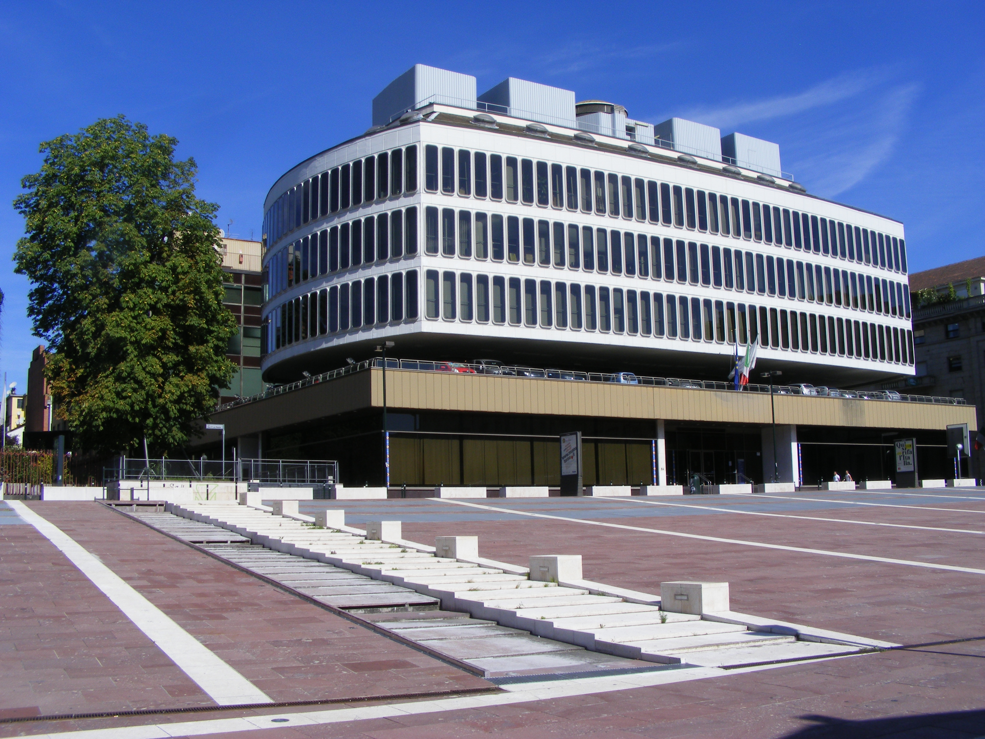 Palazzo degli Affari (Torino Chamber of Commerce's office block, Italy); designed by Mollino, Graffi, Galardi and Migliasso